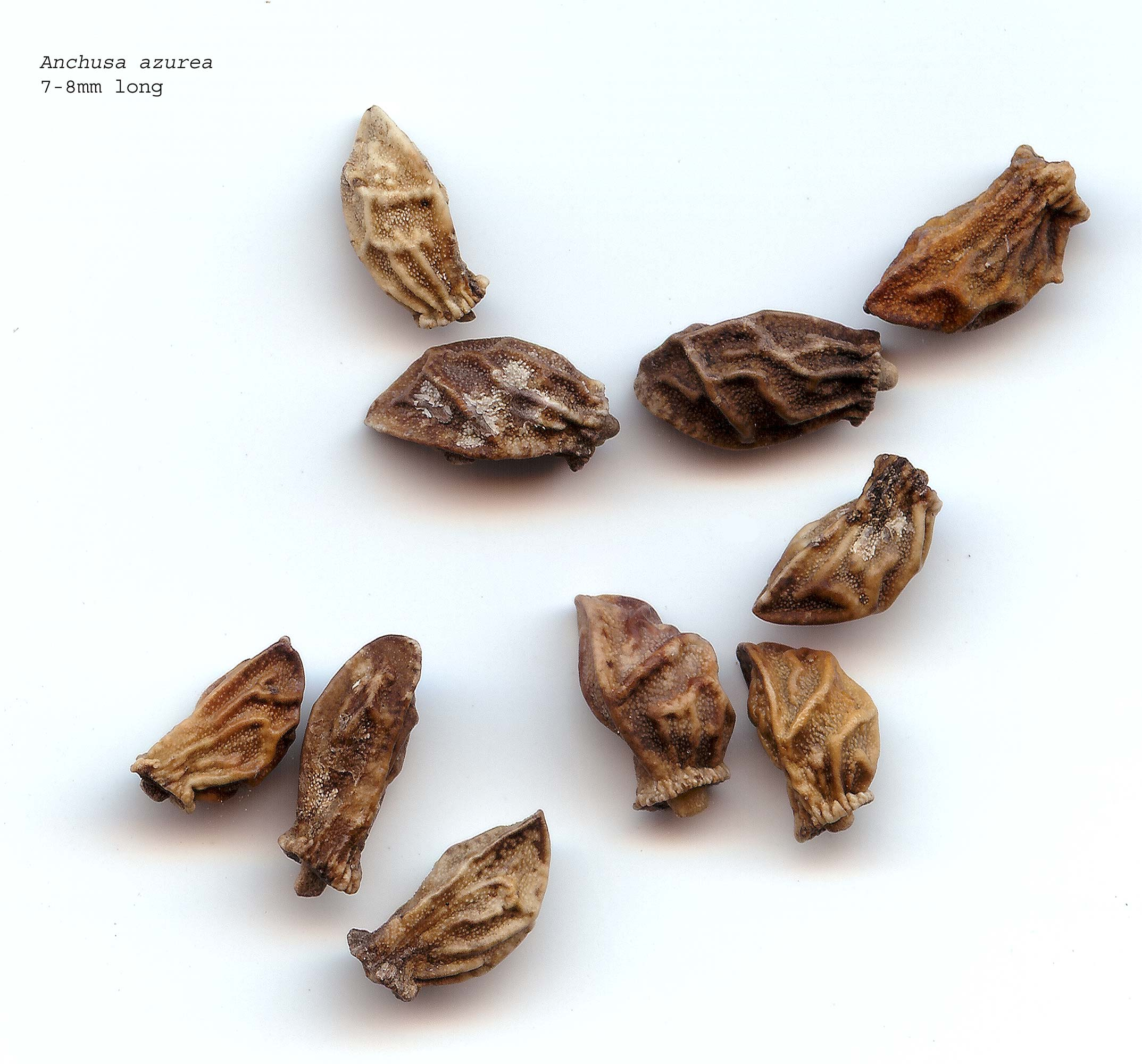 Self made scan of the seeds of Anchusa azurea, made 01/10/2008.